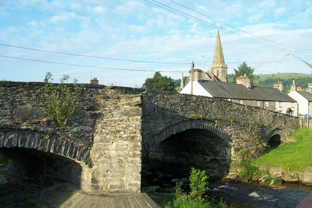 Bridge in Llandrillo, Denbighshire (formerly Merionethshire)